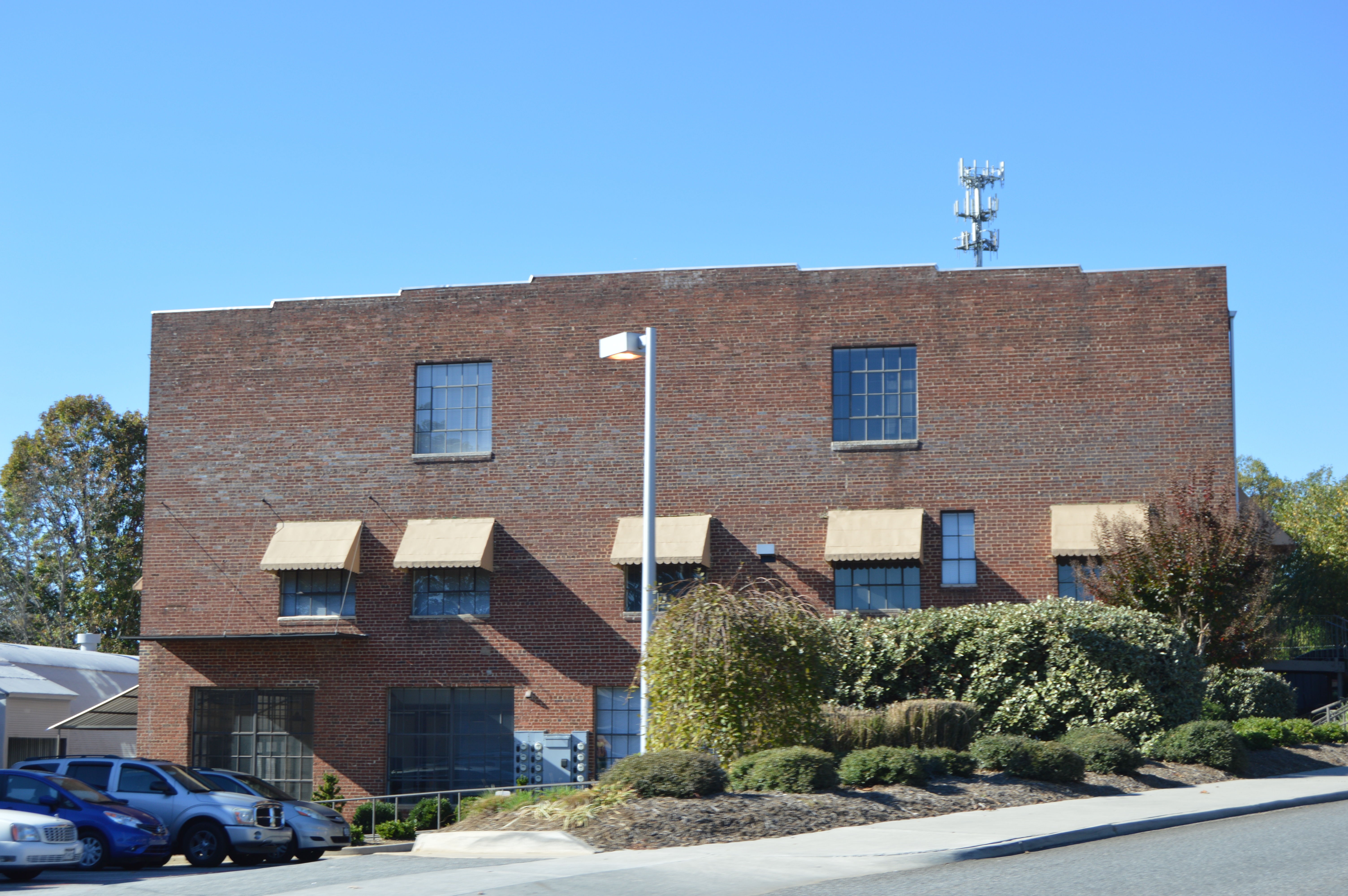 Front of the former Martinsville Novelty Corporation Factory, located at 900 Rives Road in Martinsville, Virginia, United States. Built in 1929, it is listed on the National Register of Historic Places.